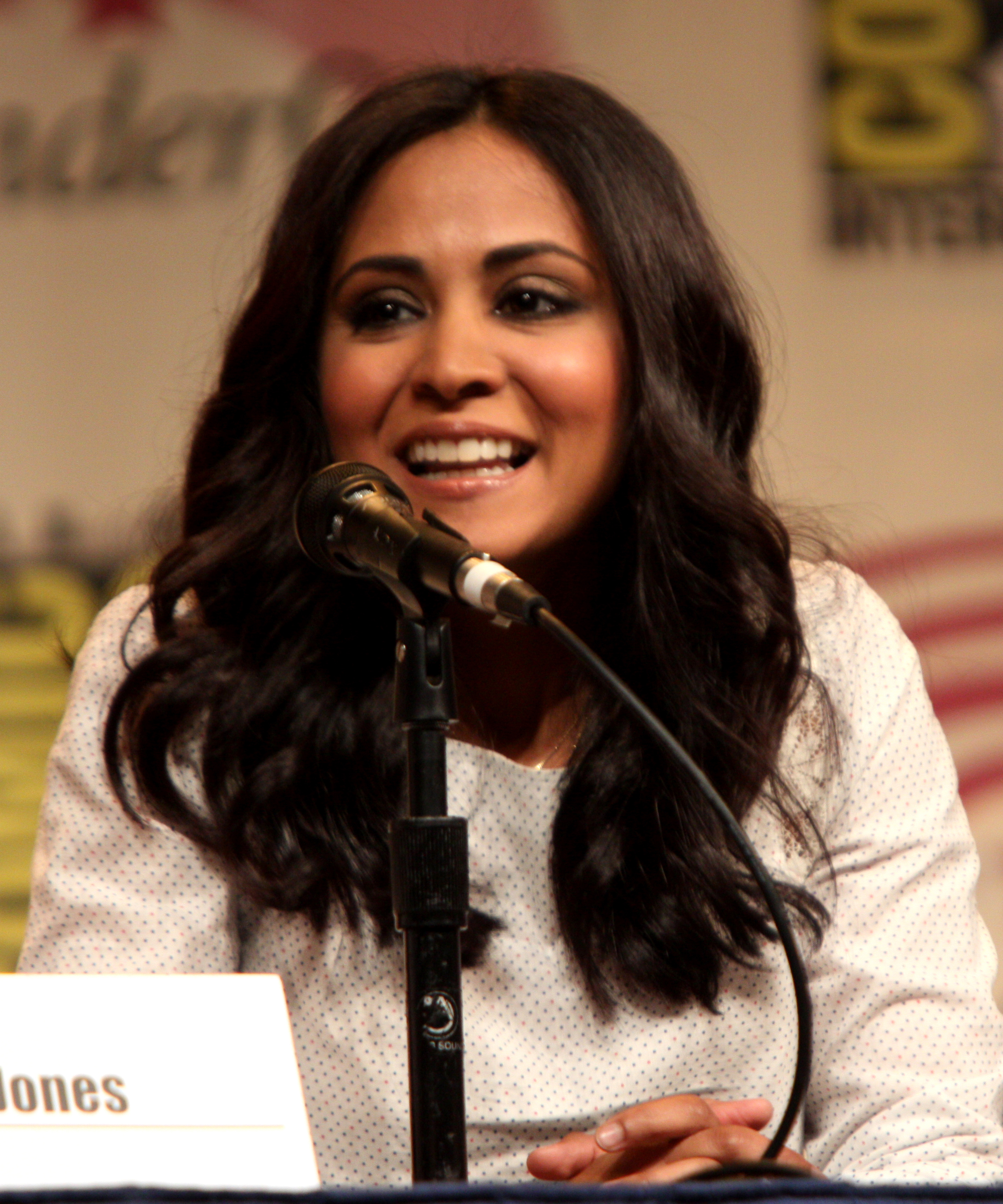 Parminder Nagra speaking at Wondercon 2012 in Anaheim, California on March 18, 2012.